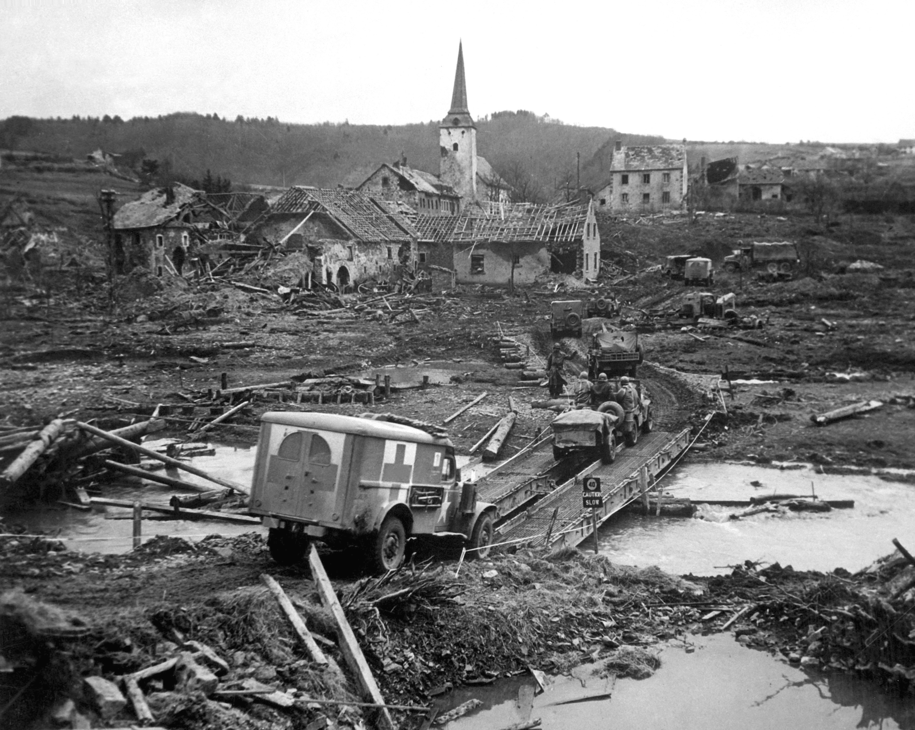 U.S. Army vehicles crossing the river Prüm at Lünebach, county of Bitburg-Prüm, Rhineland-Palatinate, Germany, in March 1945. The view is from what is today Lichtenborner St. (B 410) east towards the church of St. Gertrud. Lünebach had some 700 inhabitants and was heavily damaged during the Battle of the Bulge. Original description: "All this inanimate wreckage around us was little enough compensation for the human wreckage we hauled back and forth, back and forth."